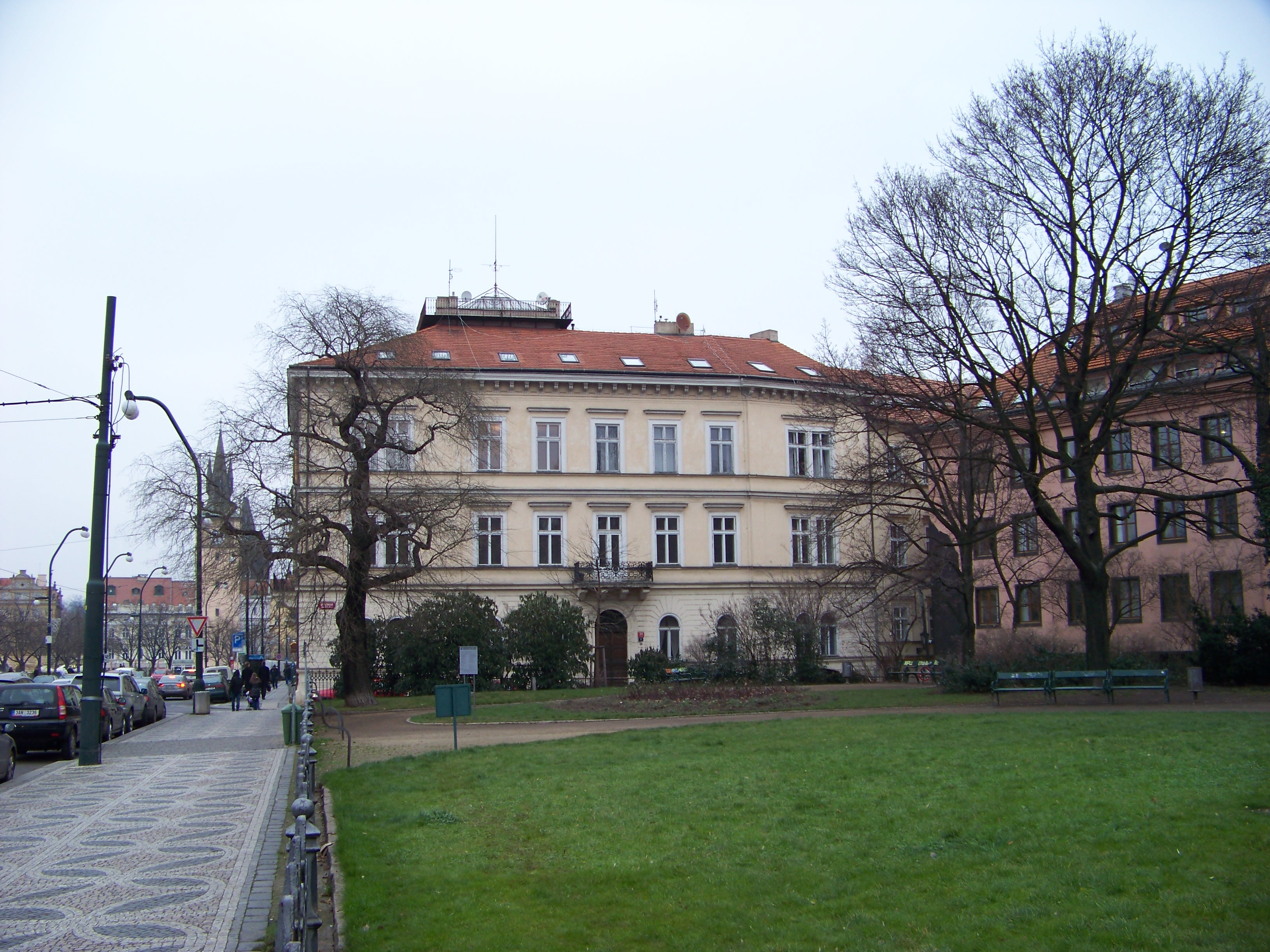 Prague-Old Town, Czech Republic. Park Národního probuzení, Smetanovo nábřeží 331/8, Betlémská 331/1.